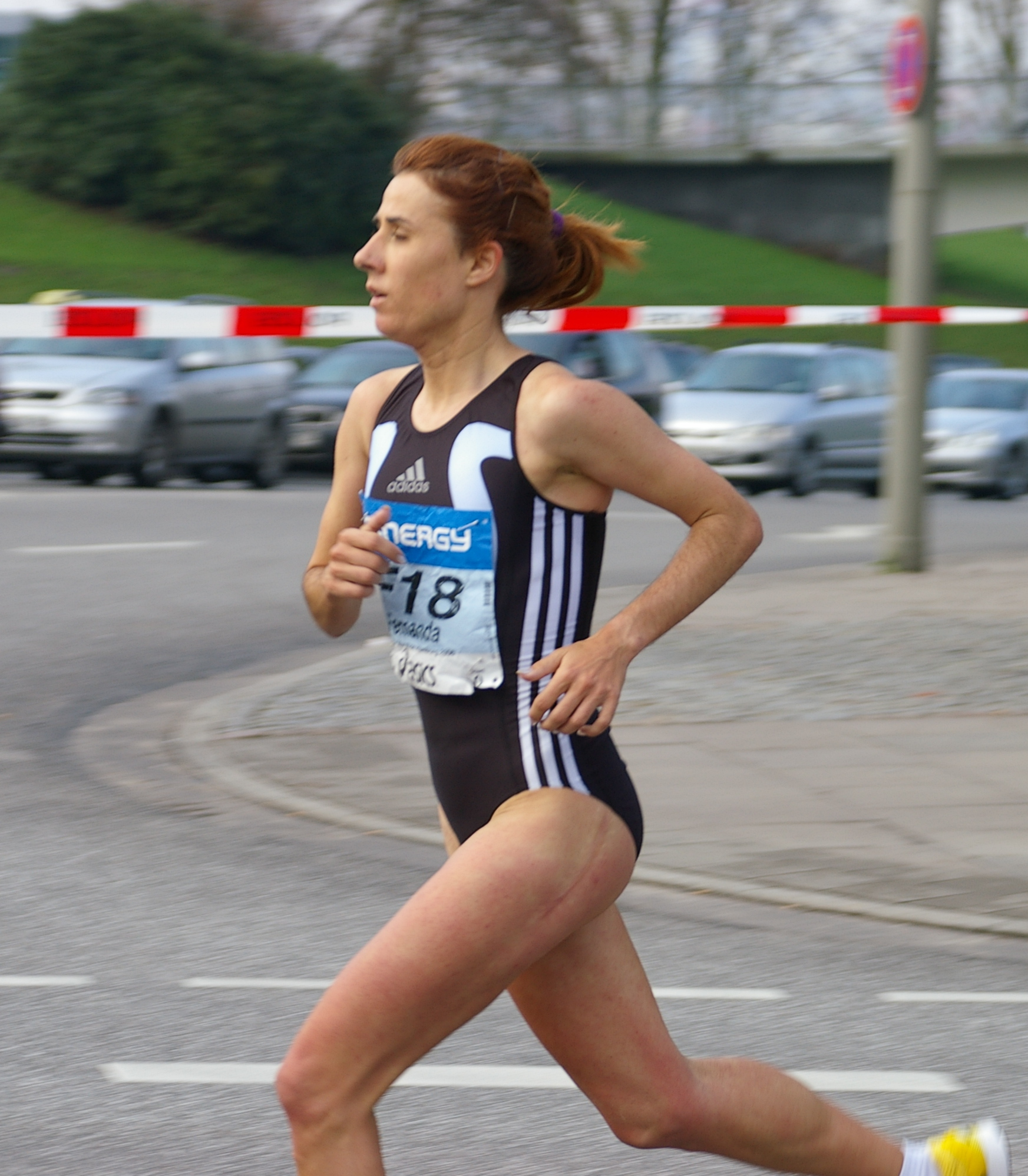 Marathon Hamburg: Fernanda Ribeiro